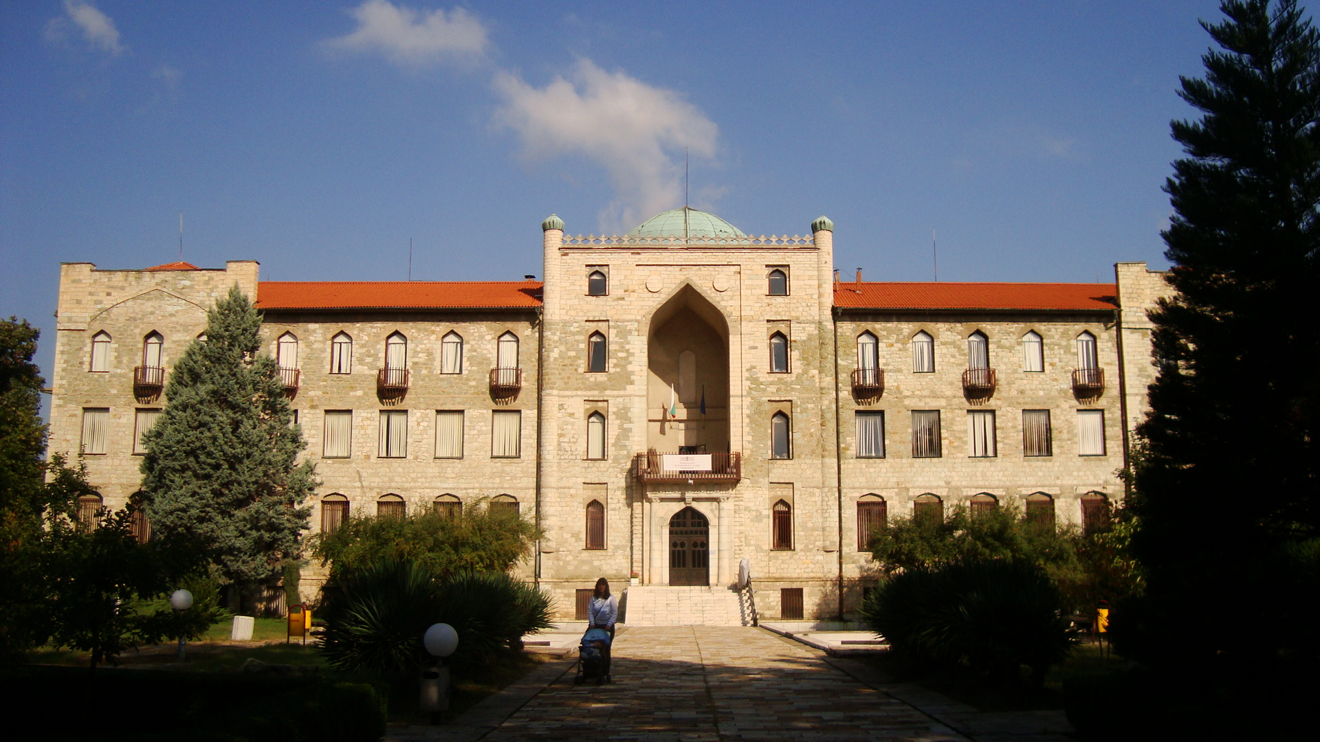 Kardzhali Regional History Museum